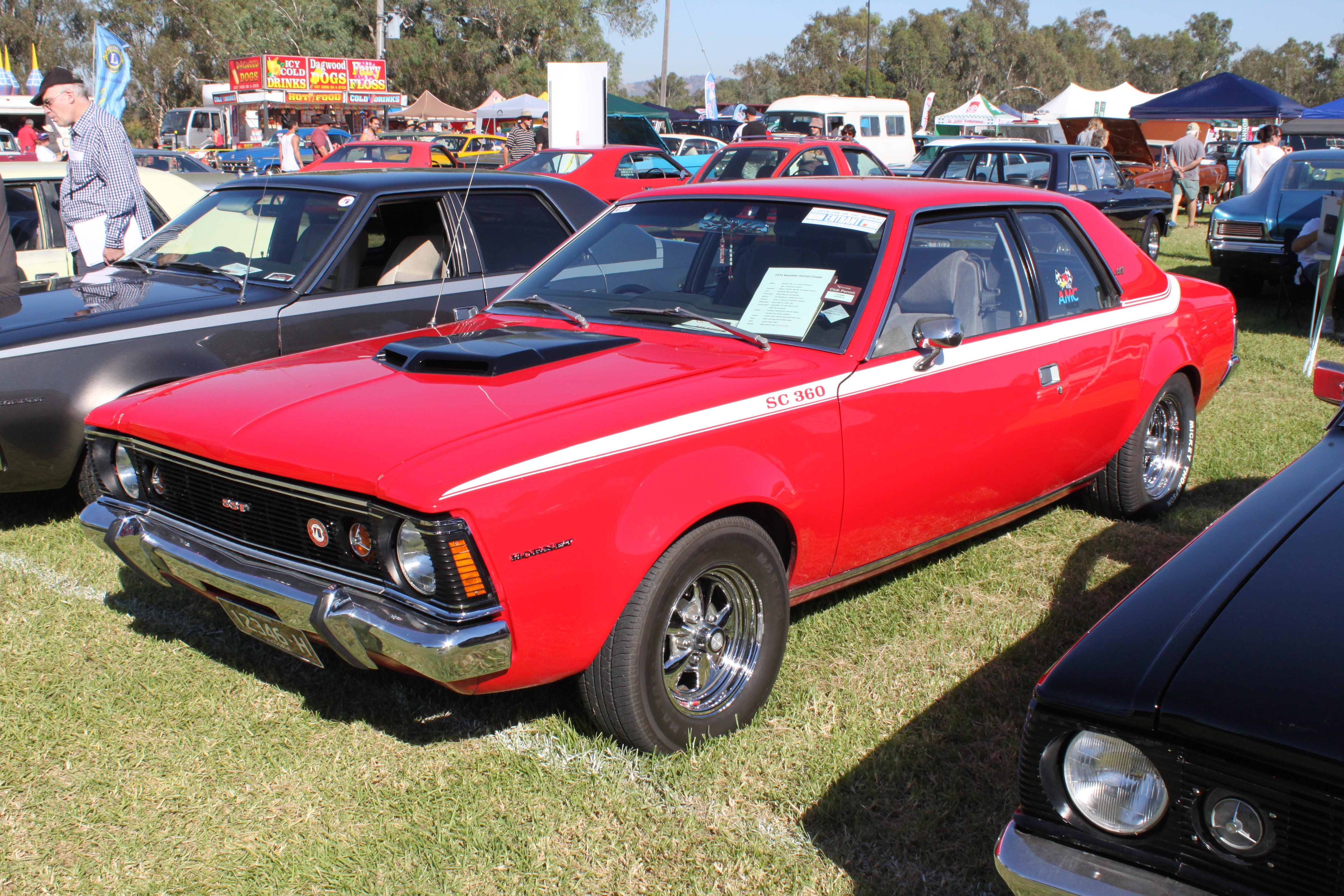 Chryslers on the Murray 2015